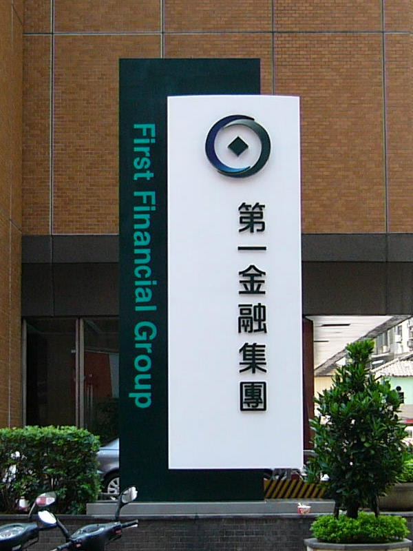 First Financial Group sign on Kaifeng Street Section 1, Zhongzheng District, Taipei City.